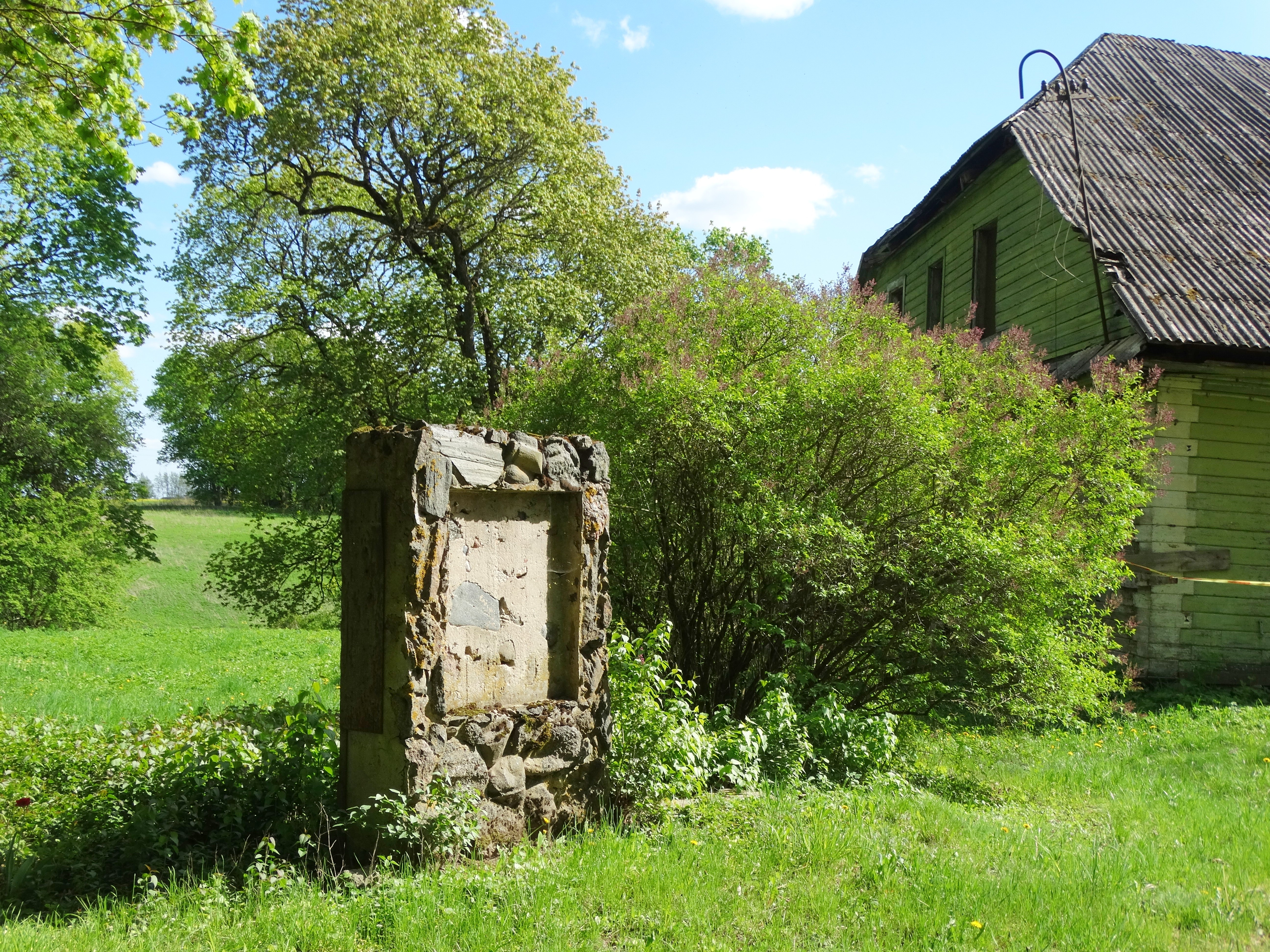 Grinkiškis, Radviliškis district, Lithuania